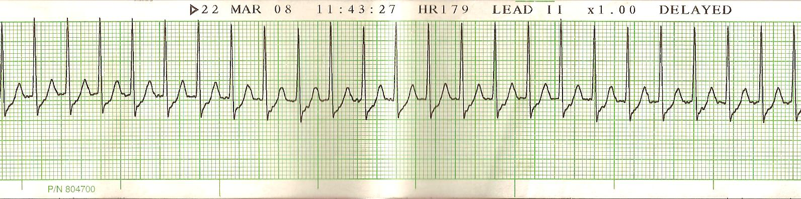 Lead II (2) ECG EKG tracing of Supraventricular tachycardia SVT in a 40 year old male